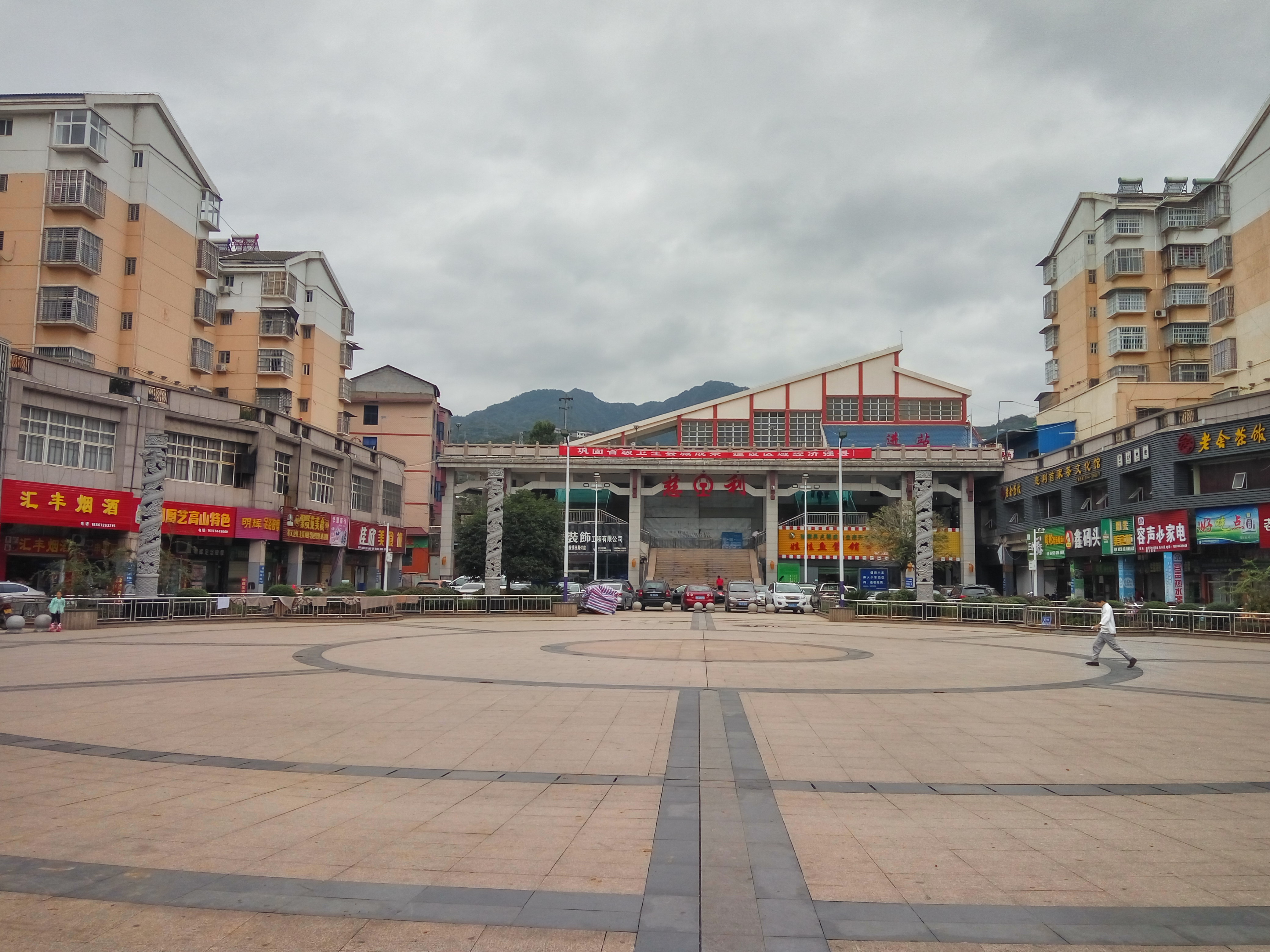 Cili Railway Sation